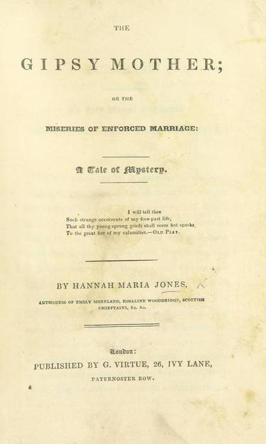 Gipsey Mother by Hannah Maria Jones 1835